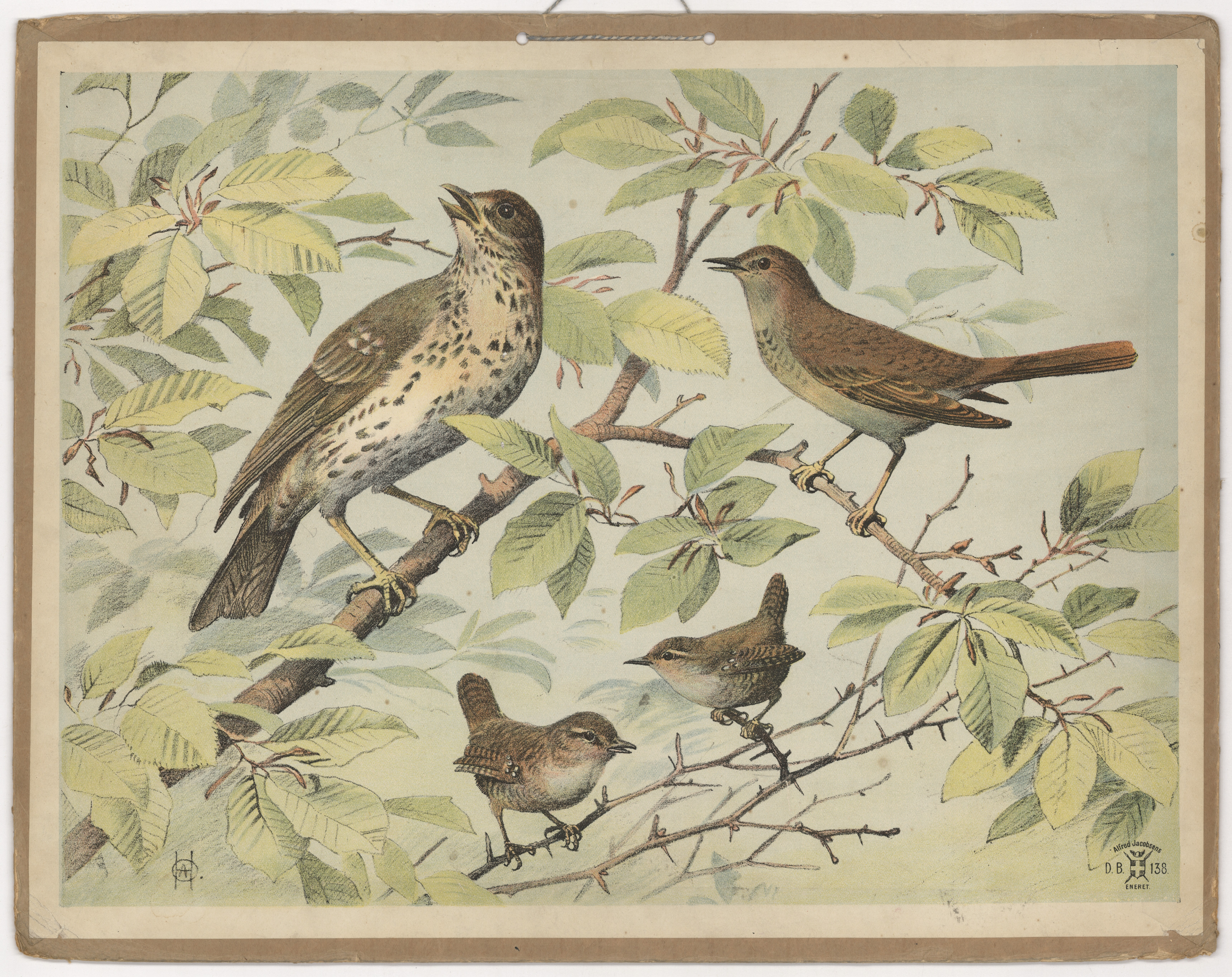 Educational Wall Chart, Thrush, nightingale and wren, after watercolour by O. A. Hermansen. Colour lithograph in Alfred Jacobsen's series, Danske Billeder (Danish Pictures).